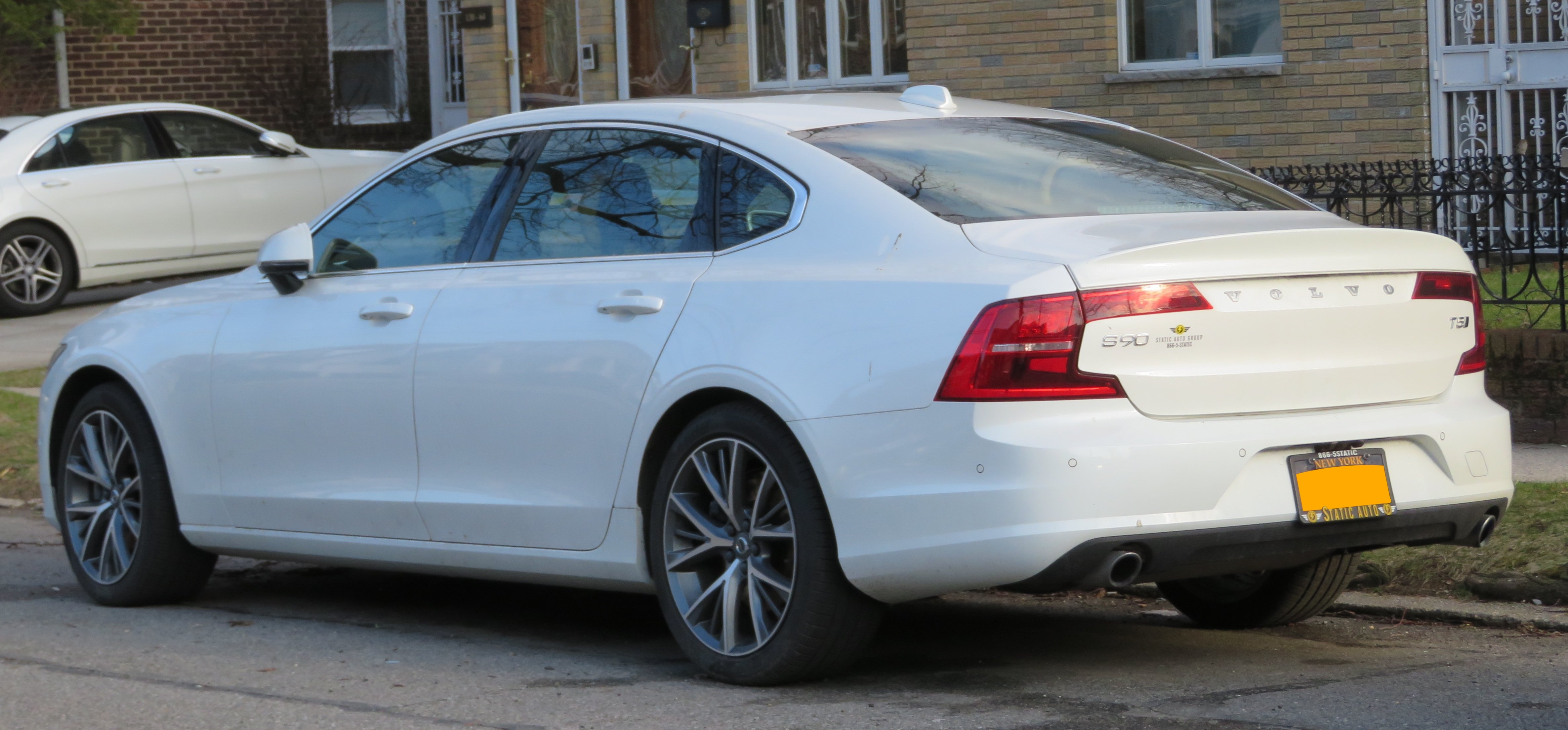 In Queens, New York